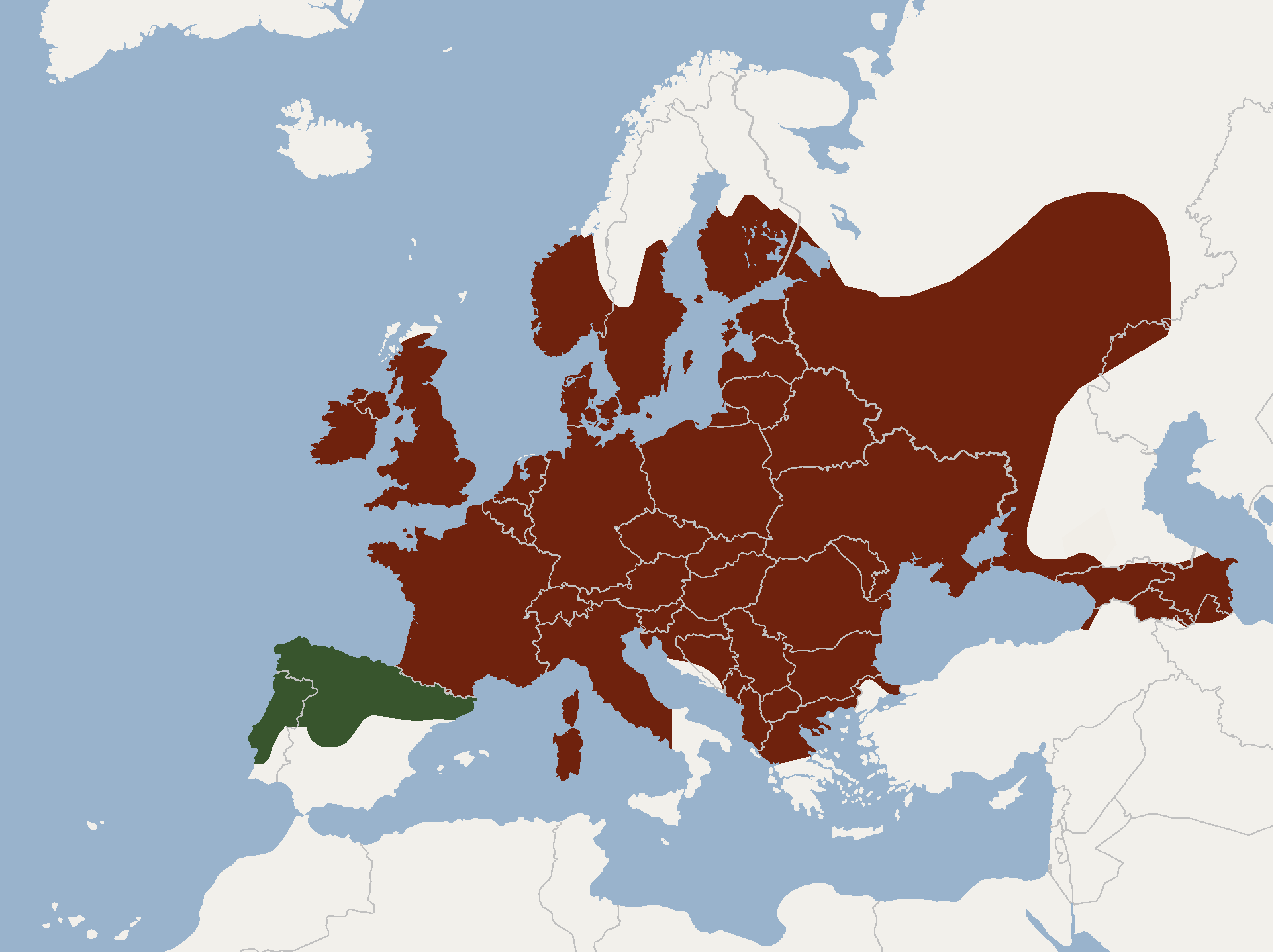 According to Aulagnier & Al., 2011 and IUCNRedlist. Subspecies range: P.a.auritus in brown, P.a.begognae in green.